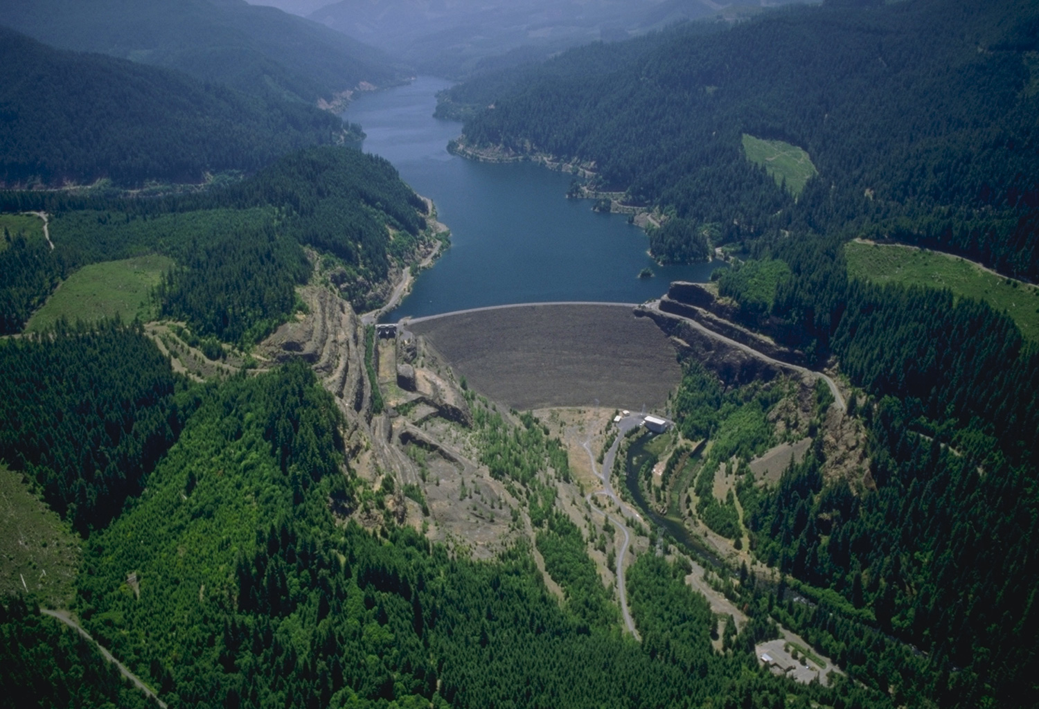 Cougar Dam on the South Fork McKenzie River near Blue River, Oregon, USA. USACE Cougar Dam website